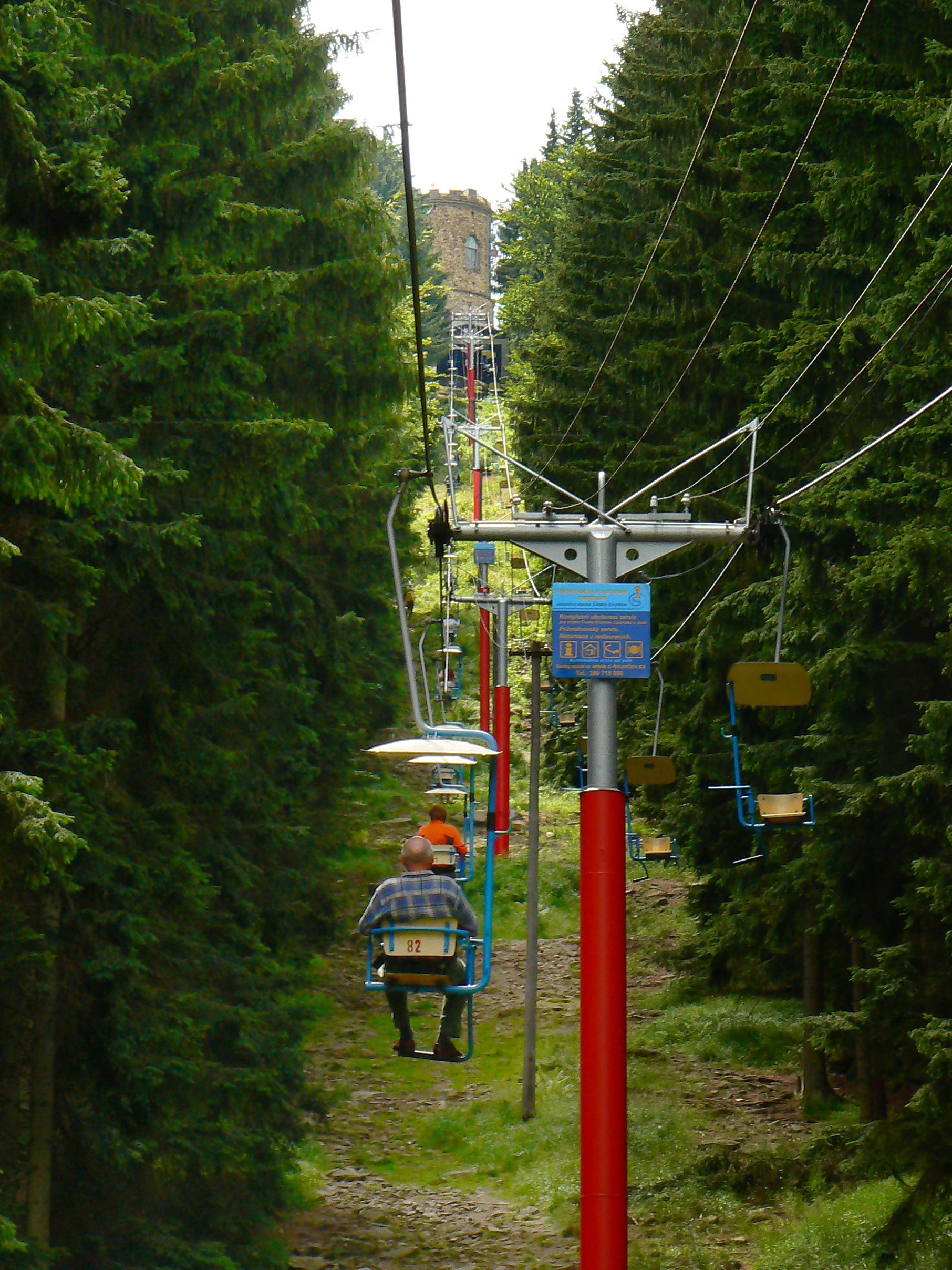 Chair-lift at Kleť Mountain, Czech Republic